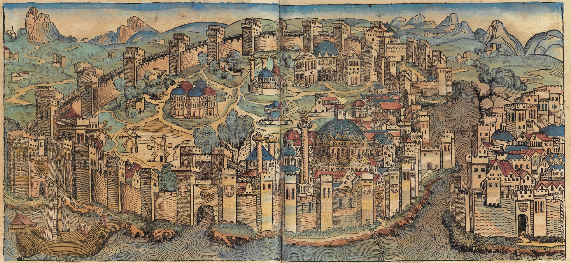 Woodcut of Constantinople from the Nuremberg Chronicle